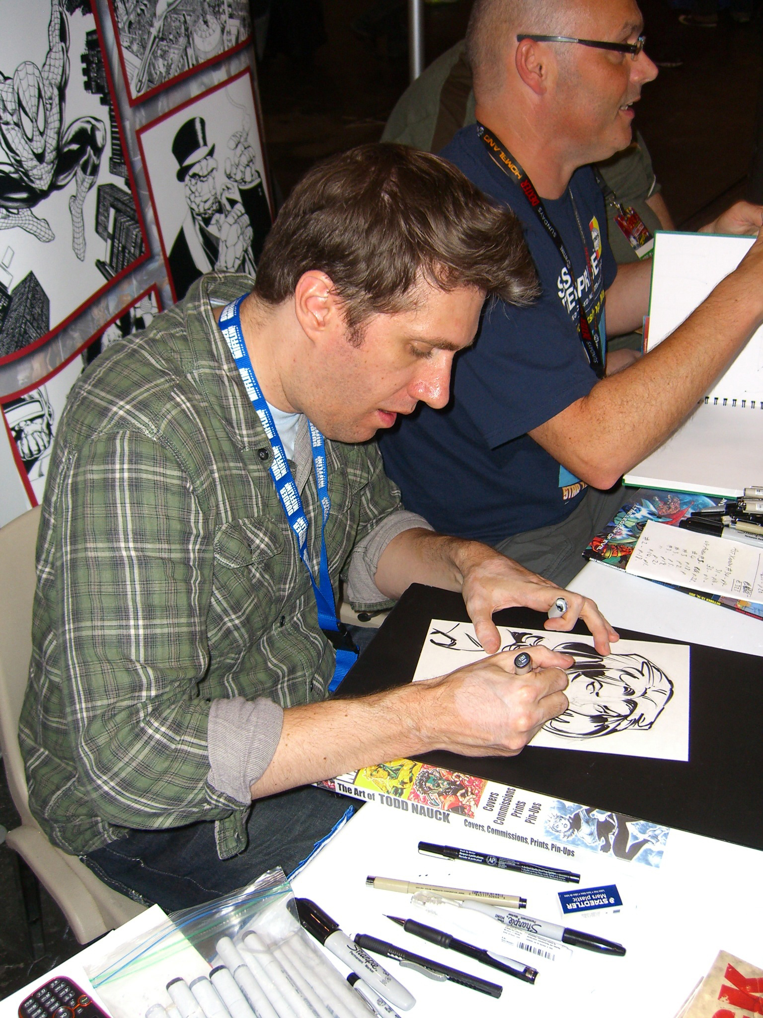 Comics creator Todd Nauck sketching Donna Troy at the 2011 New York Comic Con, Friday, October 14, 2011. Sketching beside him is Andy Lanning. This photo was created by Luigi Novi. It is not in the public domain, and use of this file outside of the licensing terms is a copyright violation.